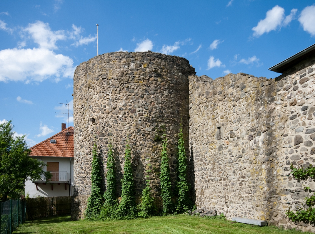 Tower of the castle Grüningen, overgrown with wine